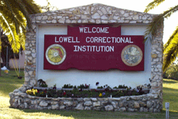 Welcome sign to Lowell Correctional Institution in Marion County, Florida.